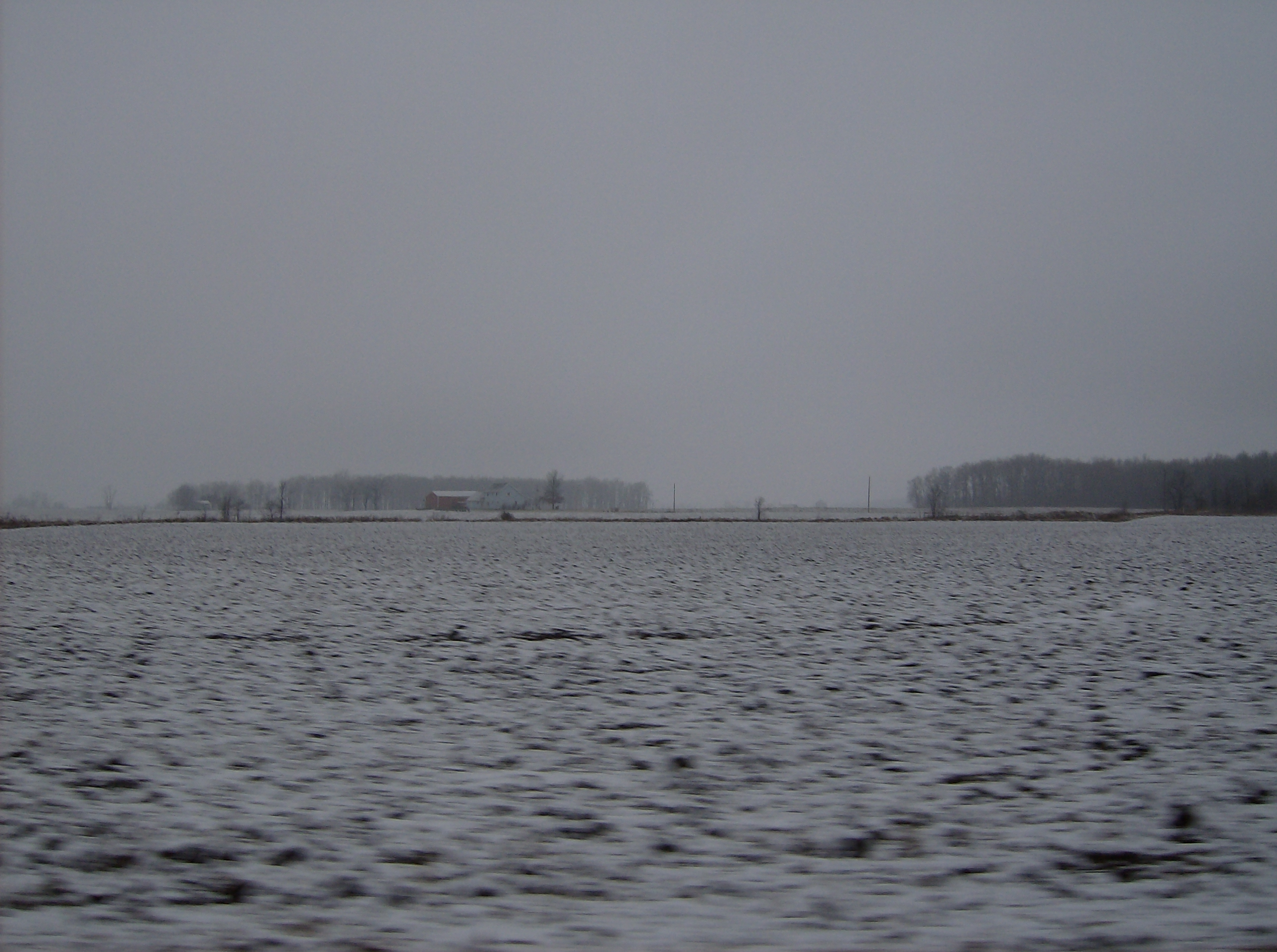 Countryside in western Greene Township, Jay County, Indiana, United States. Picture taken northward from State Road 26.